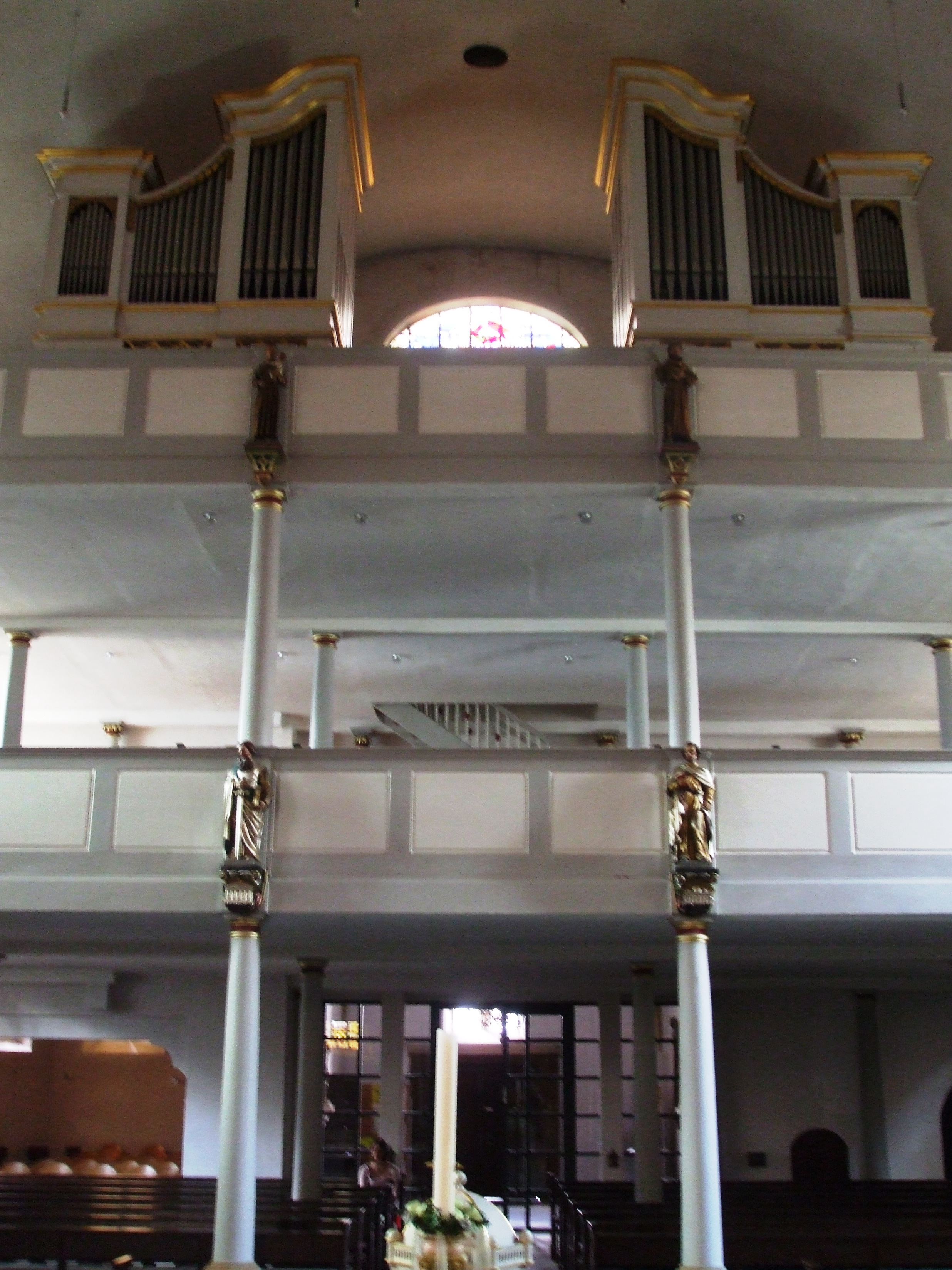 St. Johannis Glandorf - Loft